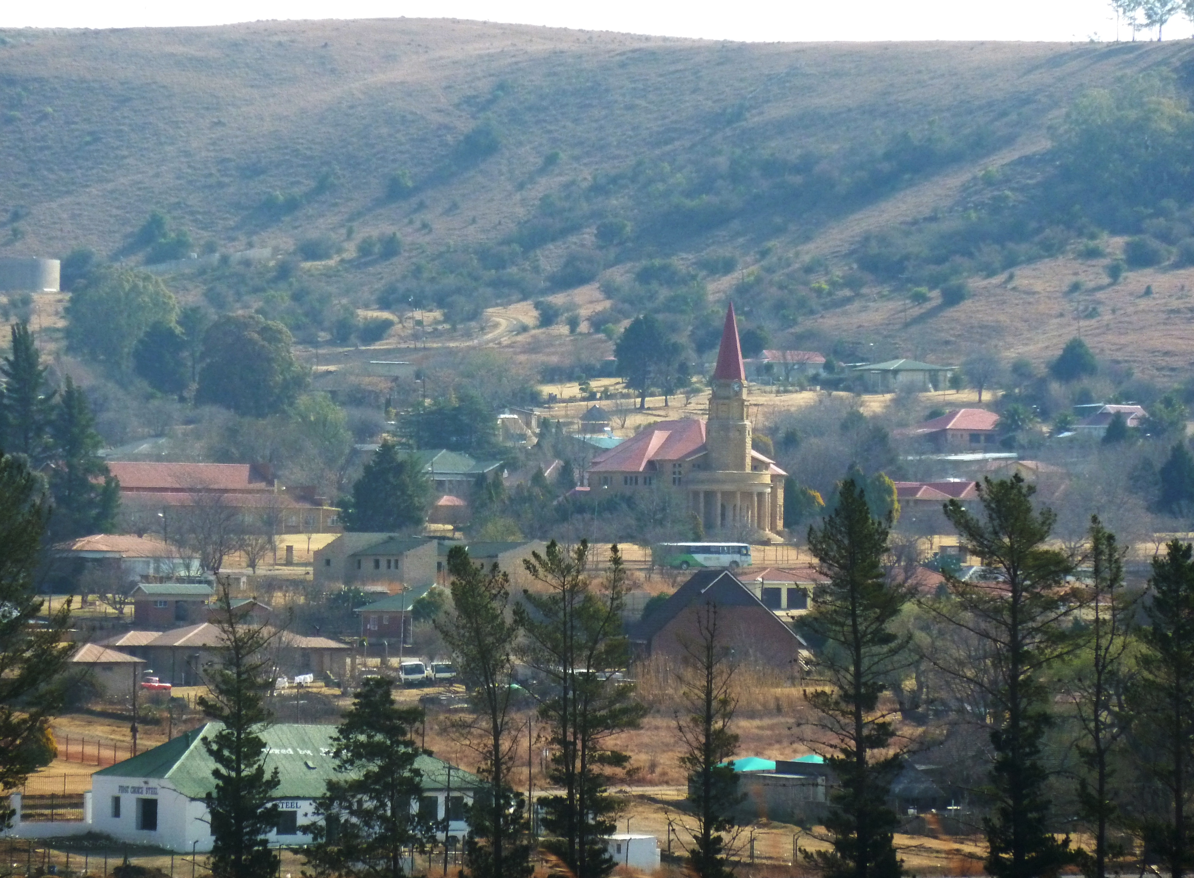 View on Kestell in the eastern Free State, South Africa